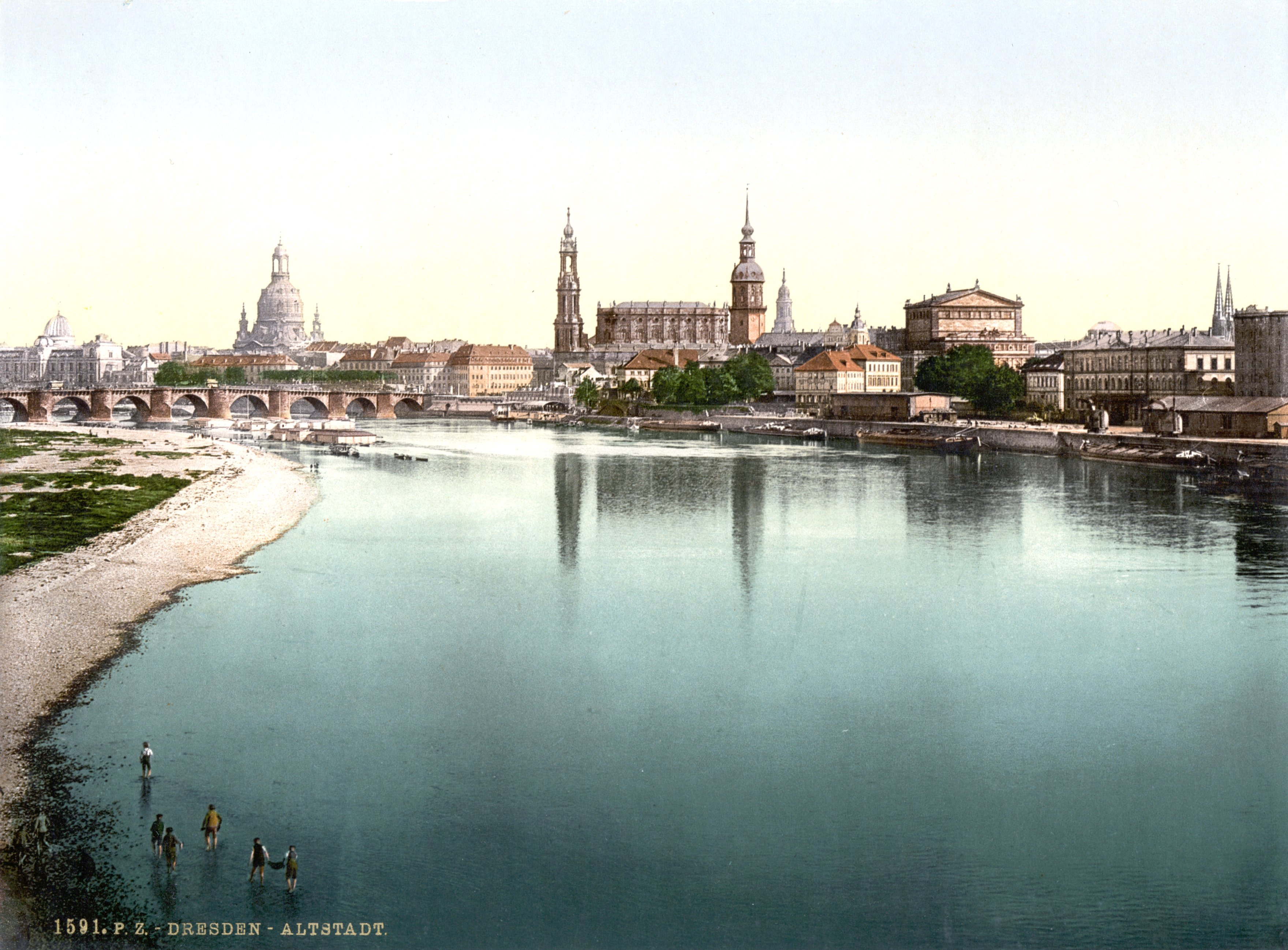 Dresden (Saxony, Germany) - view over river Elbe to Altstadt